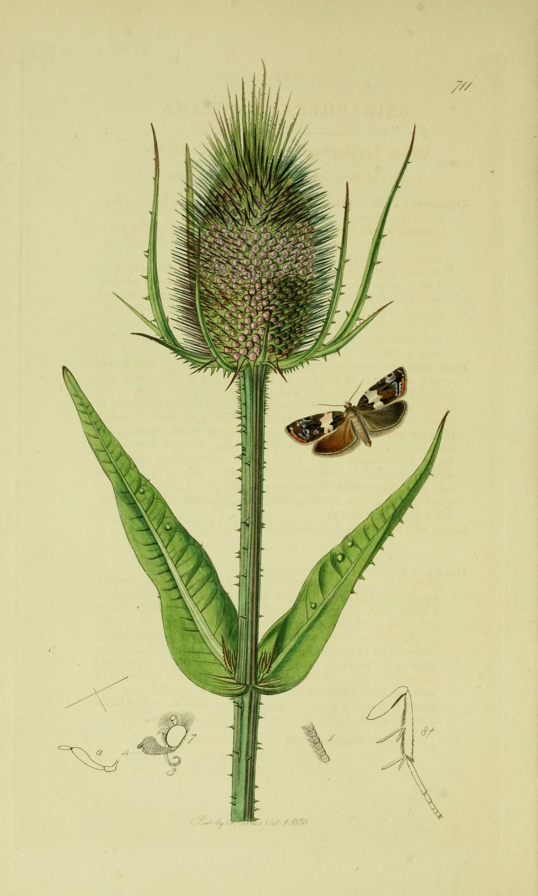 An illustration from British Entomology by John Curtis. Lepidoptera: Zeiraphera hastiana or Olindia schumacherana